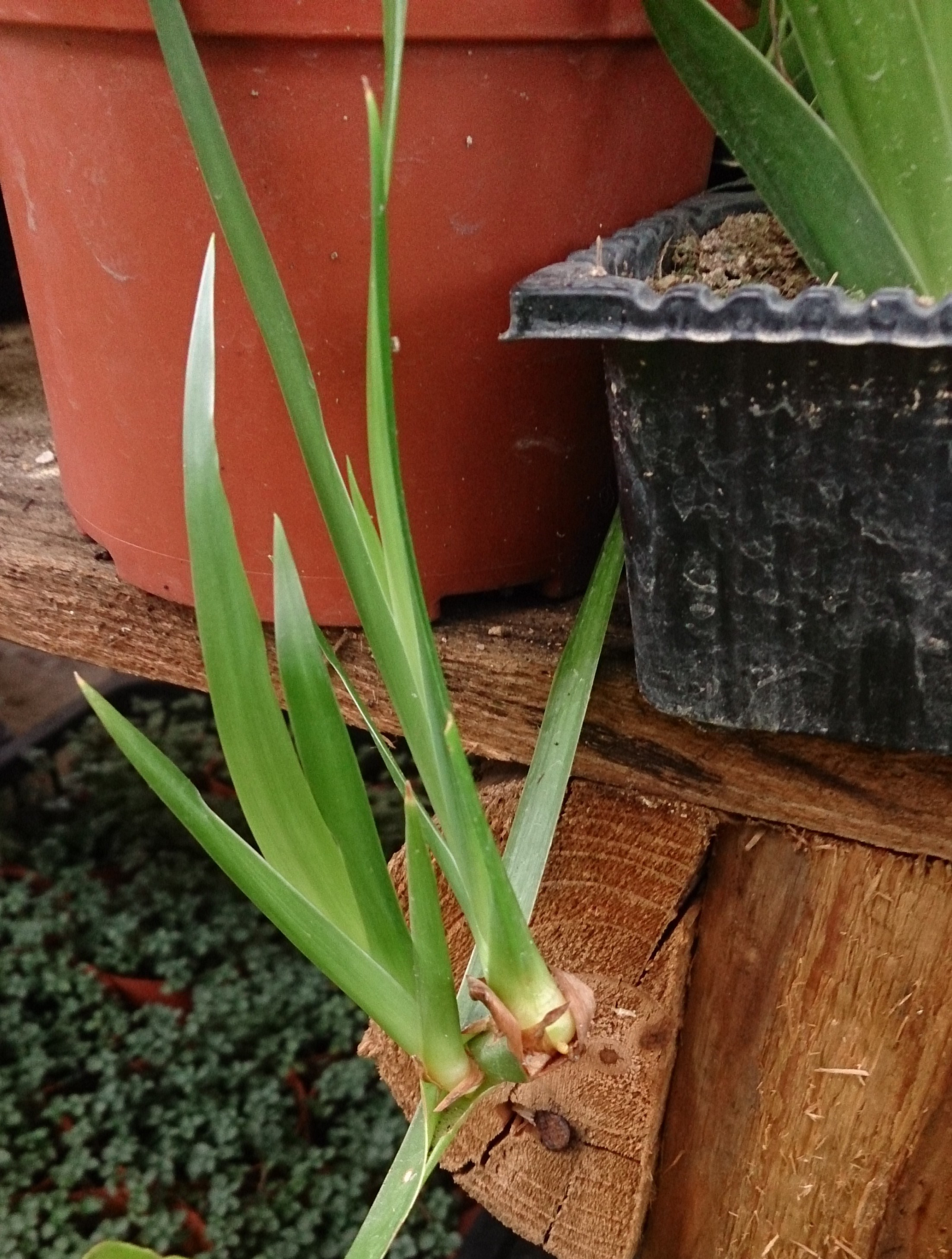 The "walking iris" (Neomarica sp.) is so named because of the way it propagates itself. A new plantlet is formed at the tip of the stalk and the weight of the new plantlet bends it to the ground where it takes root. The bending of the stalk to the ground mimics "walking", and a small plant easily spreads outwards if given the opportunity.